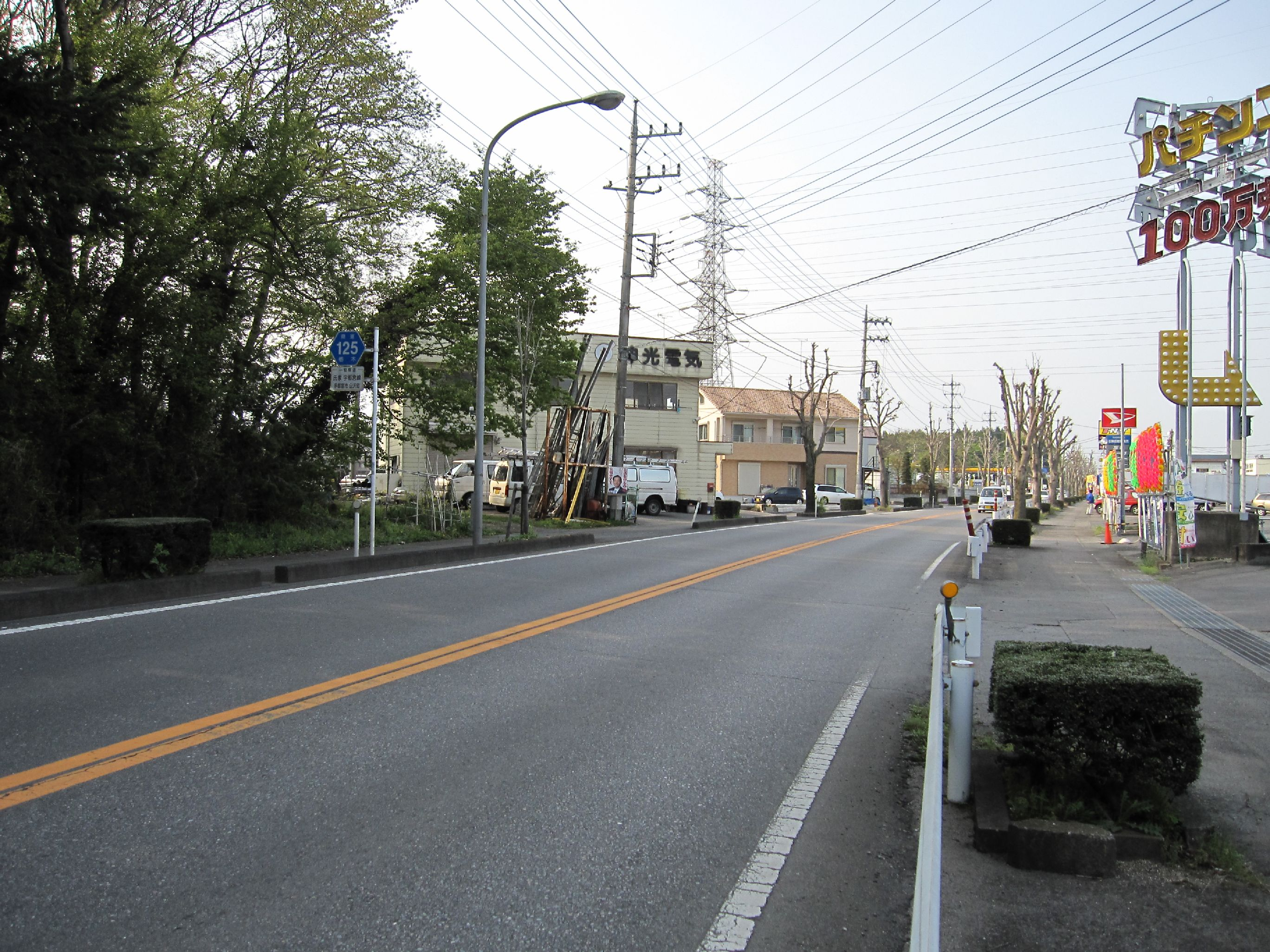 The Tochigi Prefectural Road Route 125 in Shirasawacho, Utsunomiya City